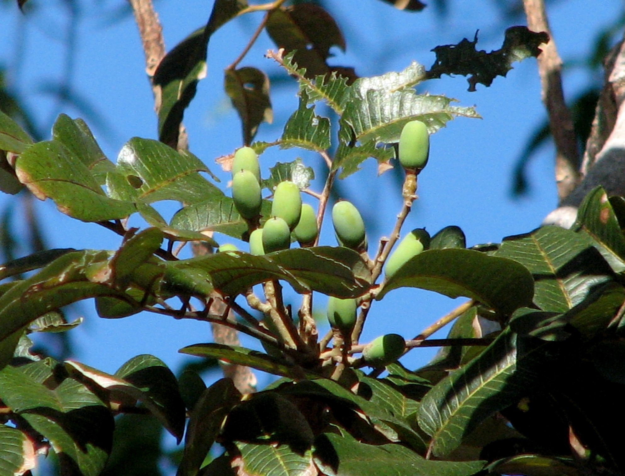 Canarium australianum unripe developing fruit (identified by User:Macropneuma) Location: Pelican Park, Kewarra Beach, Queensland, Australia